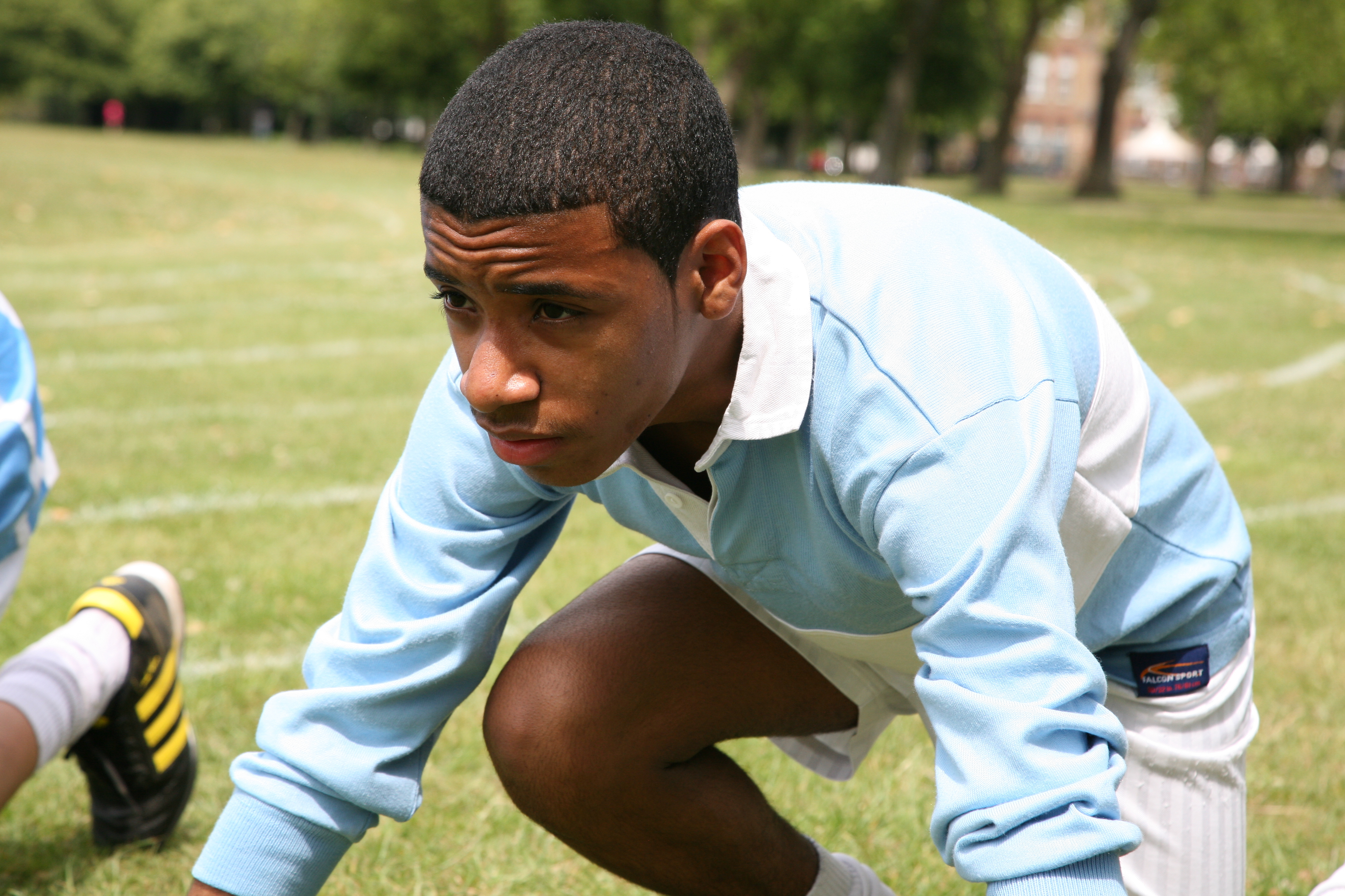 The PE Kit part of the uniform of St Bonaventure's School.